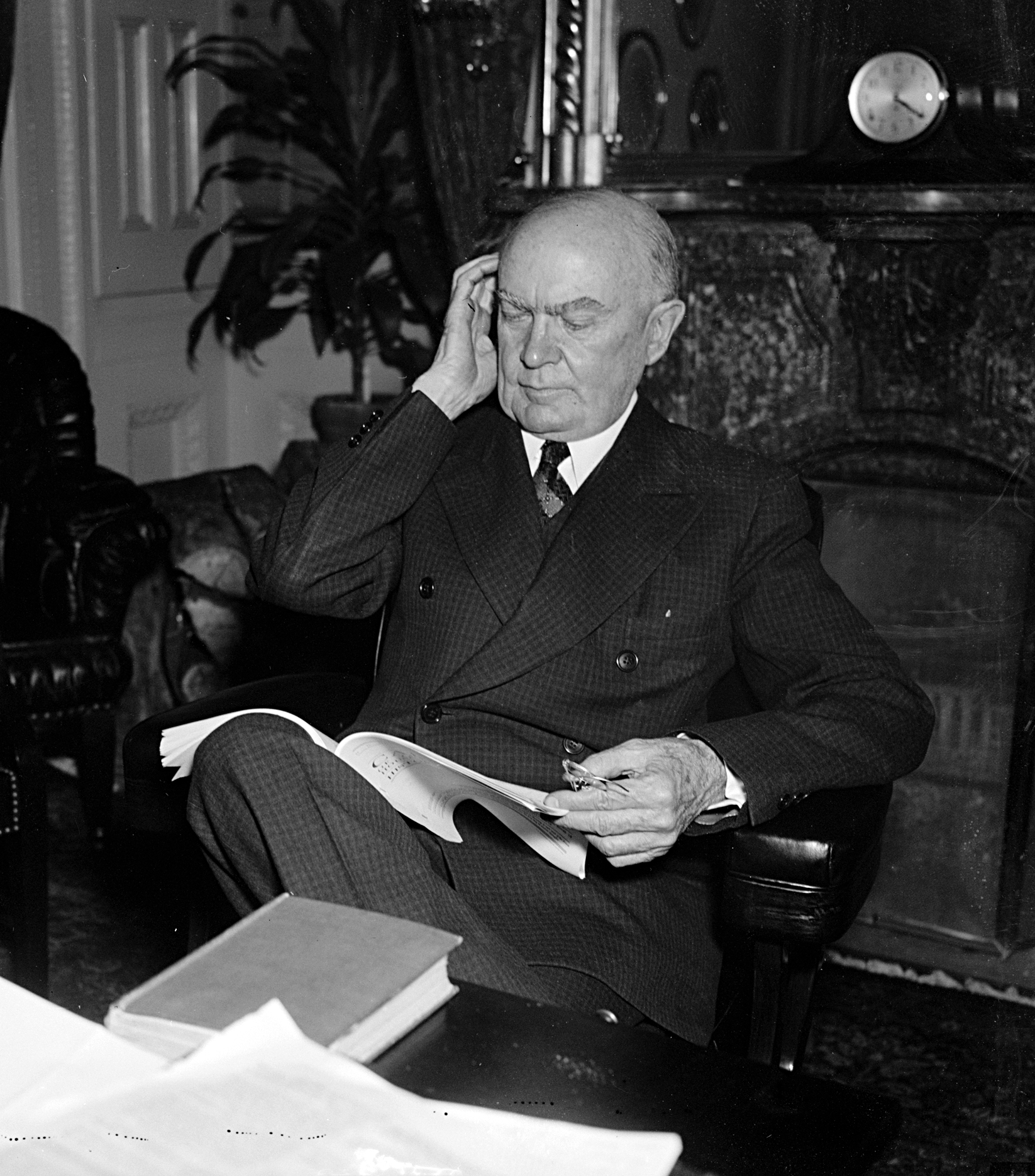 Hatton W. Sumners, US Representative from Texas